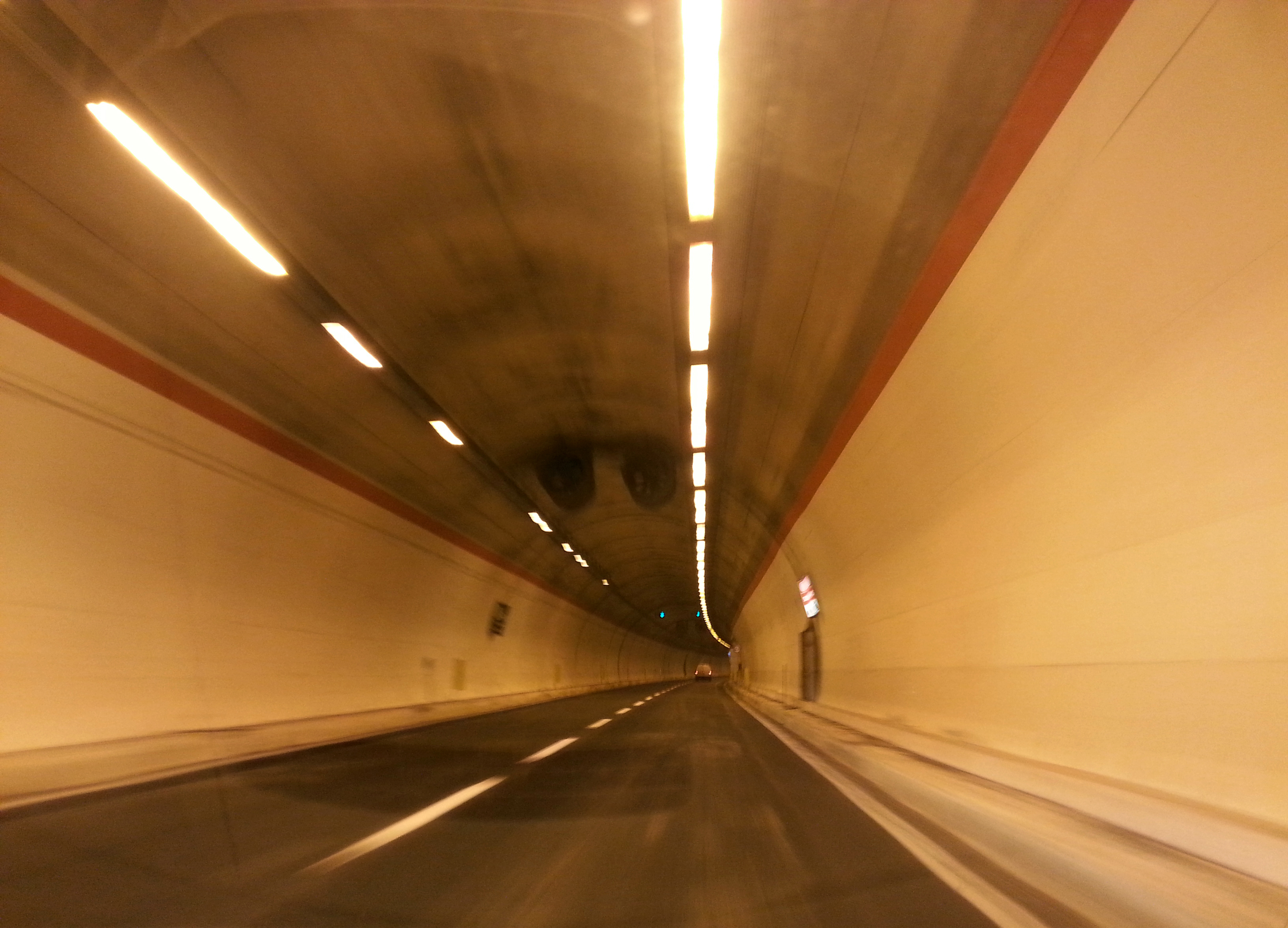 Italian State Road n. 4 Via Salaria - Colle Giardino tunnel, near Rieti, North-heading tunnel